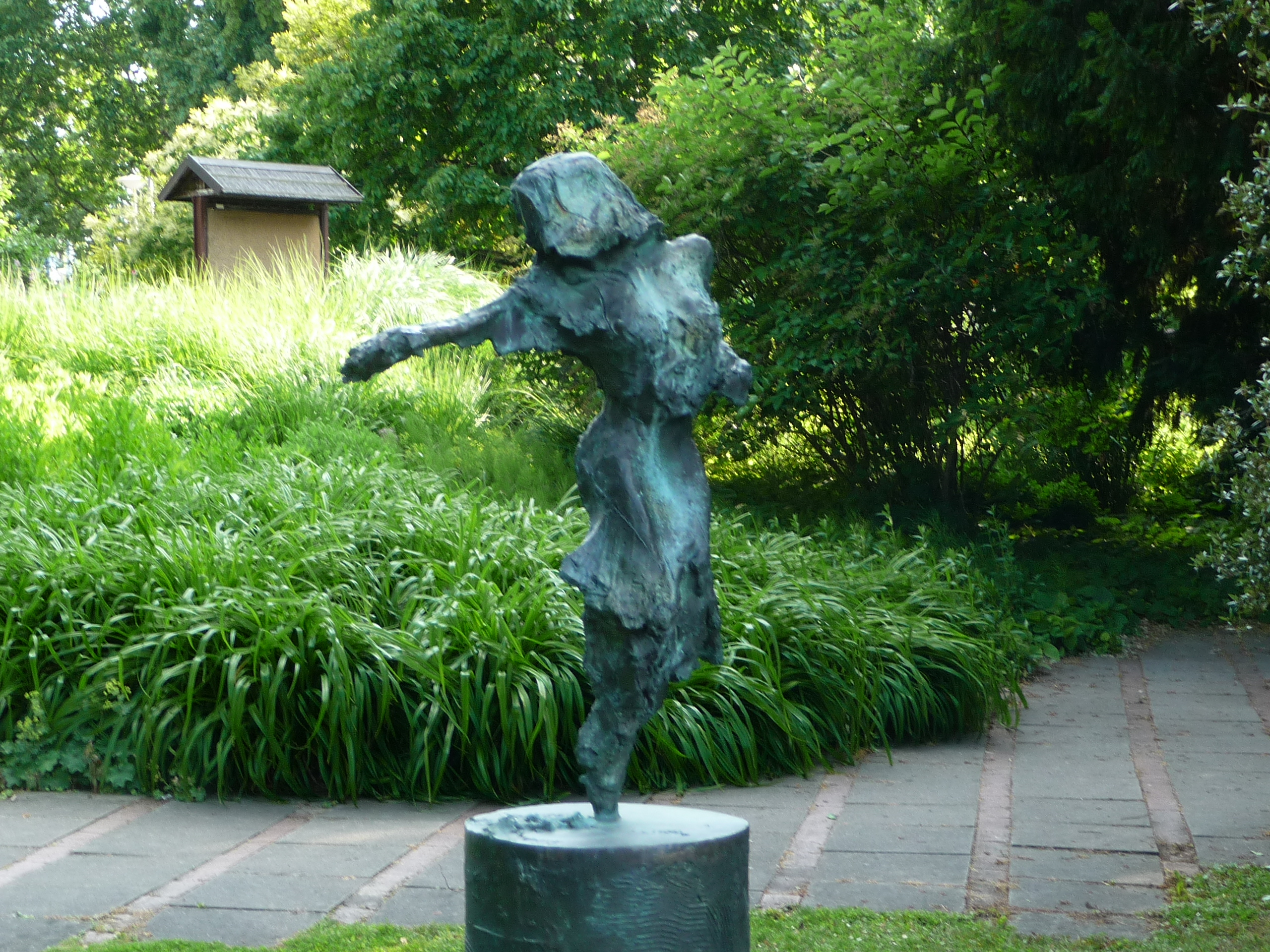 Sculptures in Mannheim